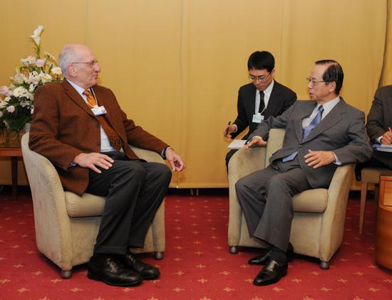 Yasuo Fukuda, Prime Minister, met Pascal Couchepin, President, in Davos Municipality, Graubünden Canton on January 26, 2008.